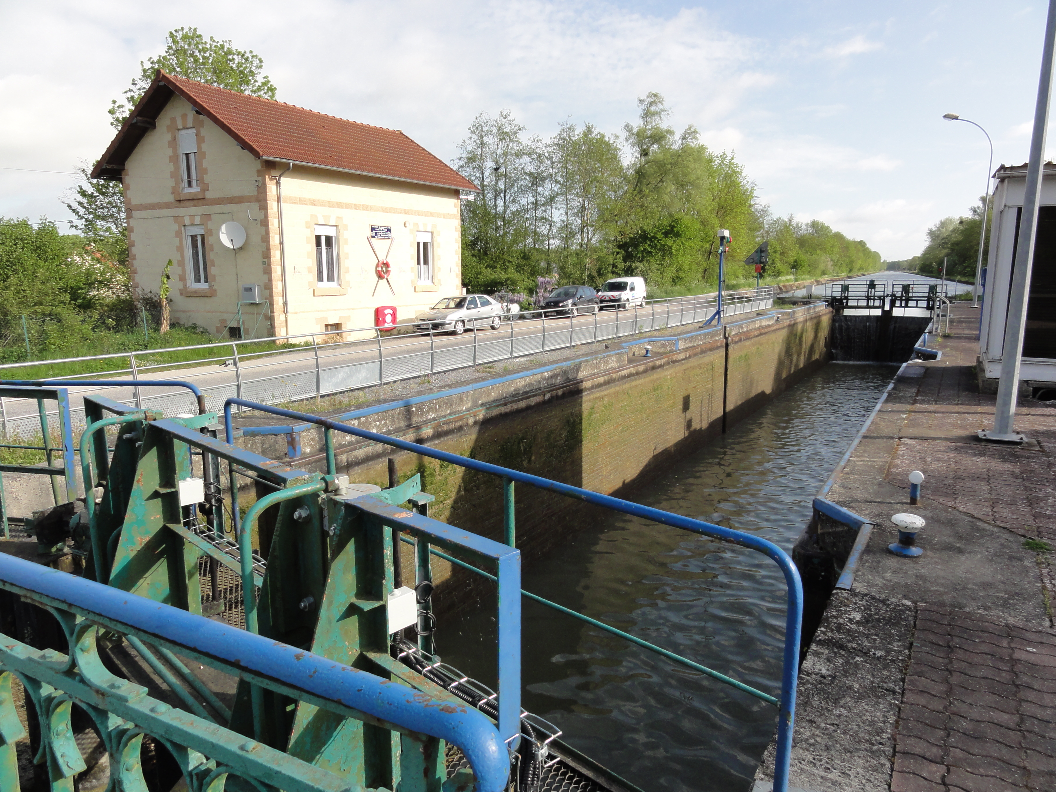 Travecy (Aisne) écluse canal de la Sambre à l'Oise